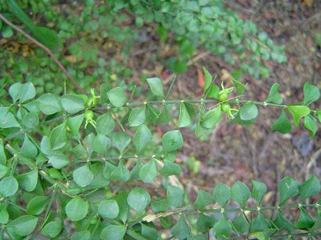 Catesbaea melanocarpa USFWS photo, no copyright.